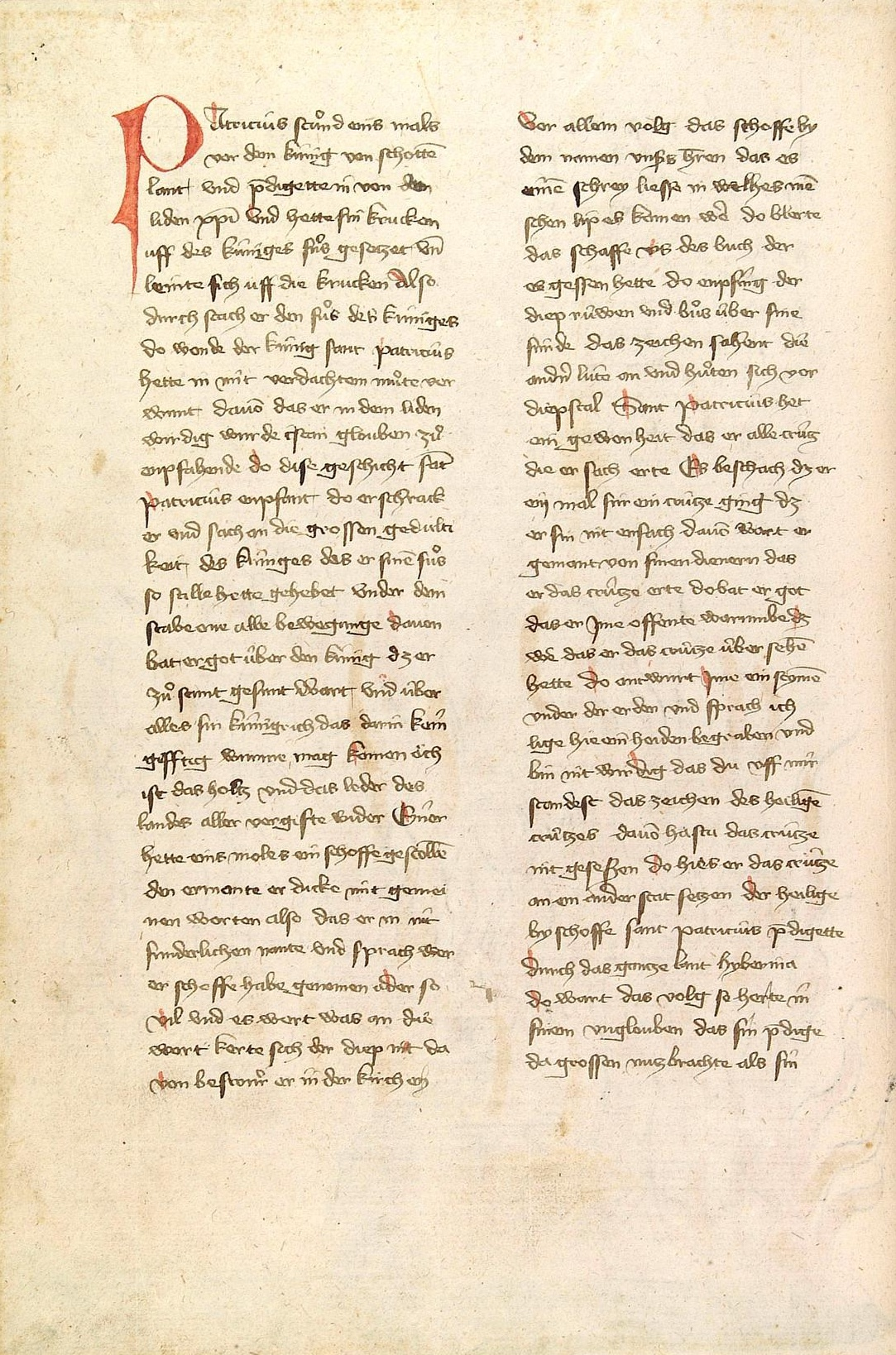 Begin of the text describing St. Patrick's purgatory in the Alsacian manuscript Legenda Aurea, cpg 144 of the University Library Heidelberg, folio 338v.